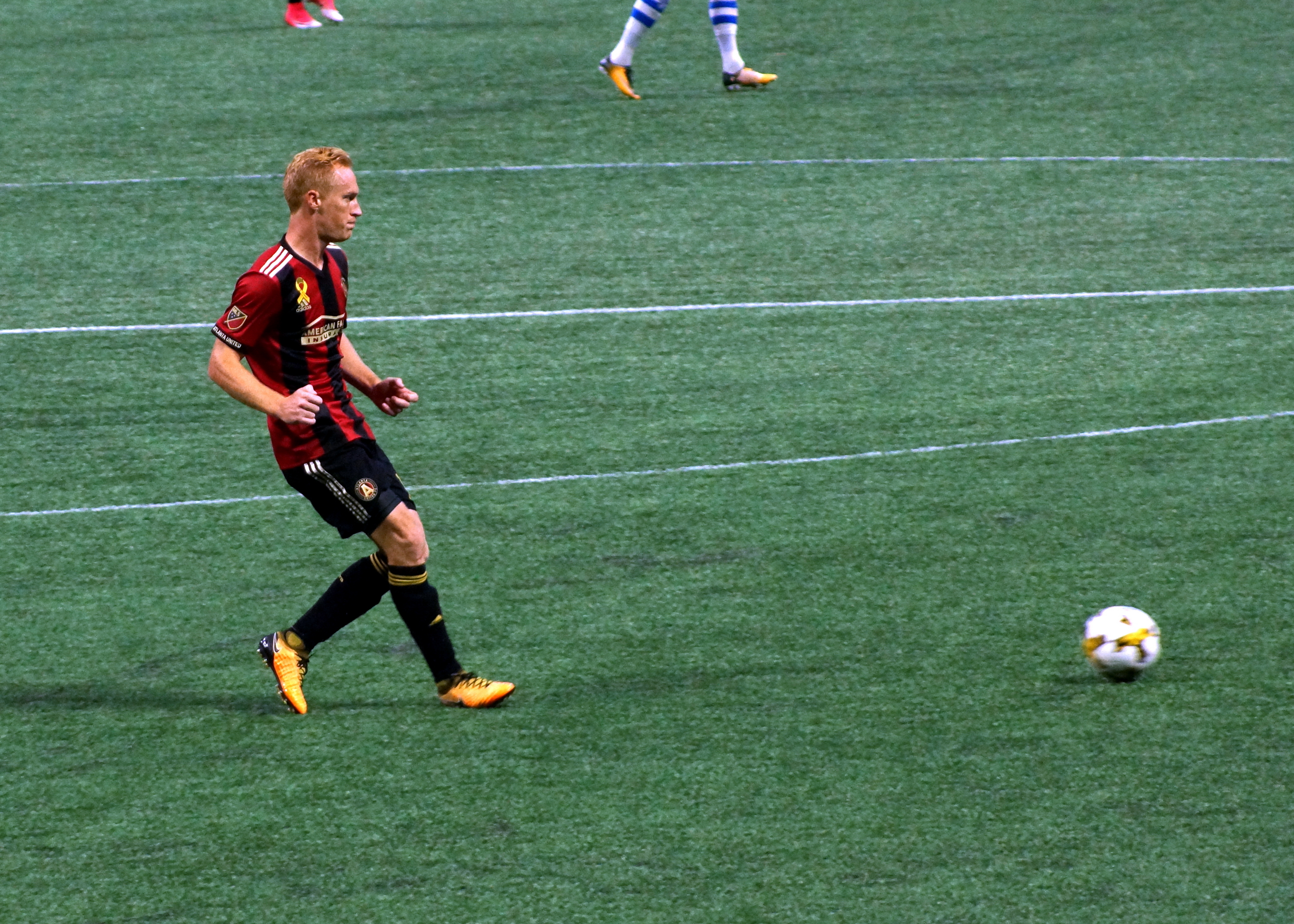 Jeff Larentowicz after the Atlanta United game on September 24, 2017